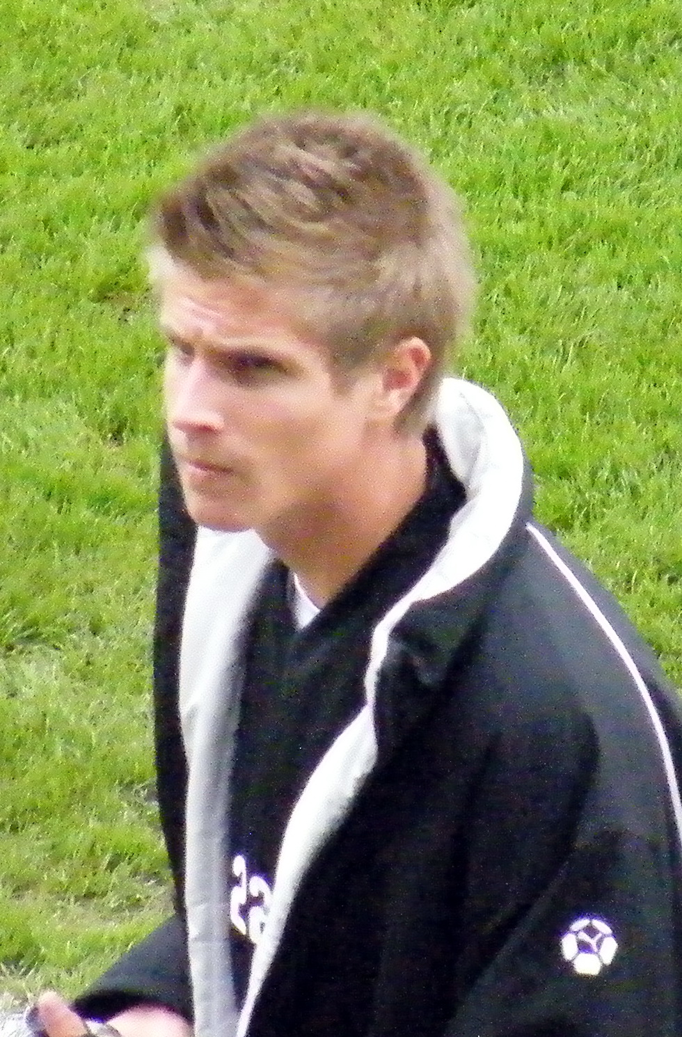 Tamás Egerszegi Hungarian football player